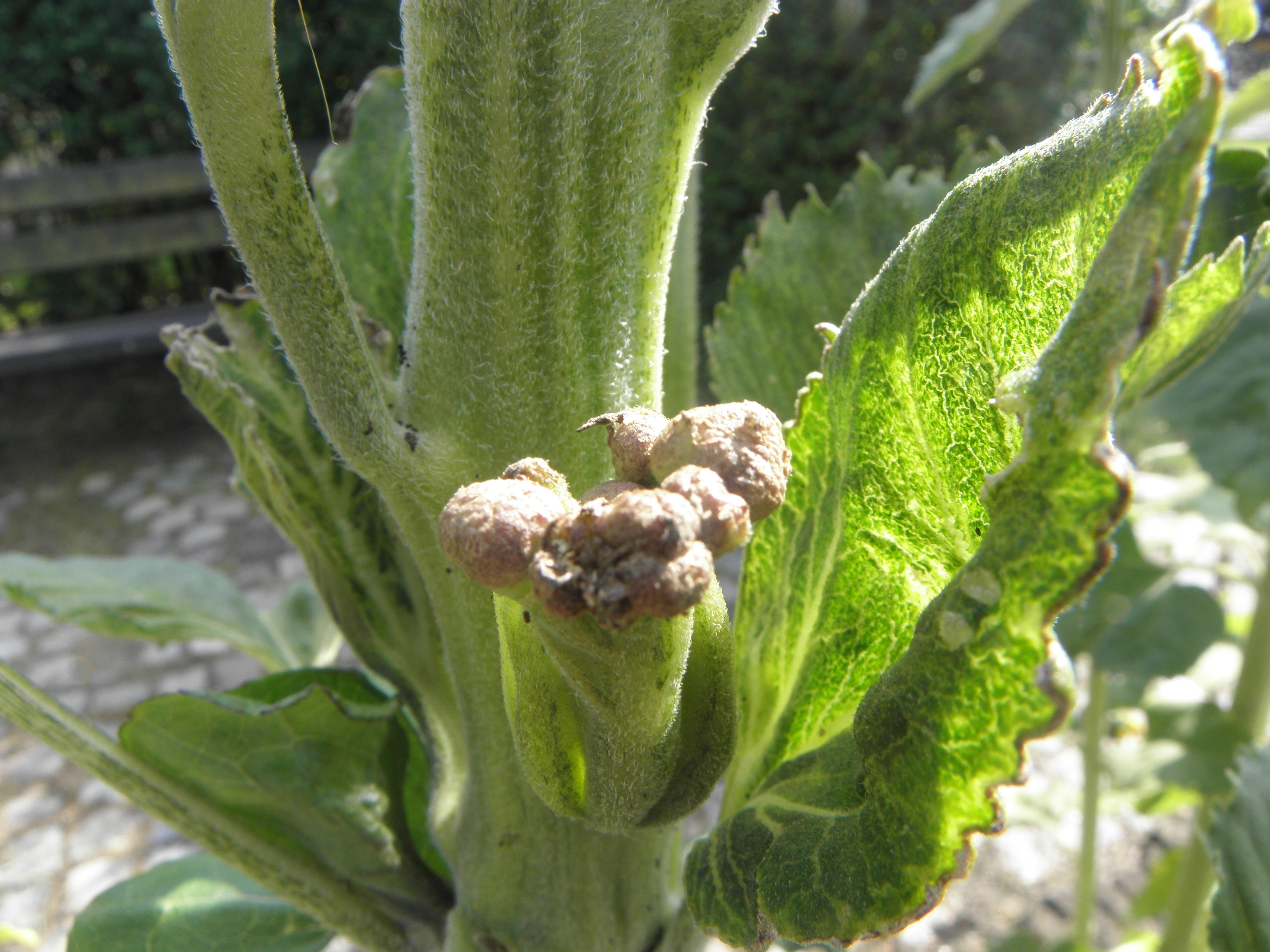 Valse meeldauw